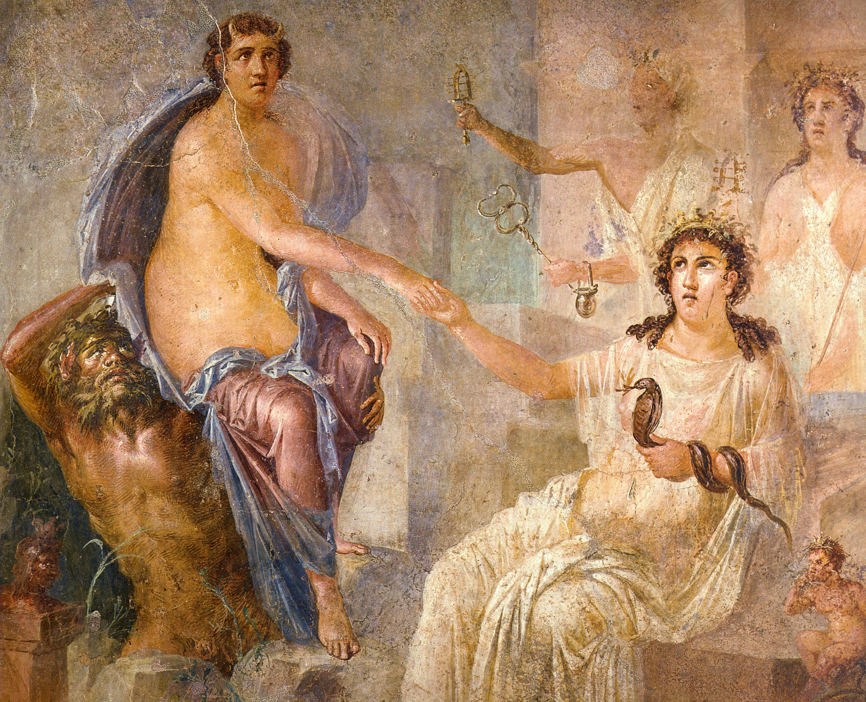 Io (on the left, with horns) is welcomed in Egypt by Isis (sitting, holding a snake and with a crocodile at her feet). Io is carried by a river god, setting her down at Kanopus near Alexandria. Roman fresco from the temple of Isis in Pompeii. Museo Archeologico Nazionale (Naples) (inv. nr. 9558).